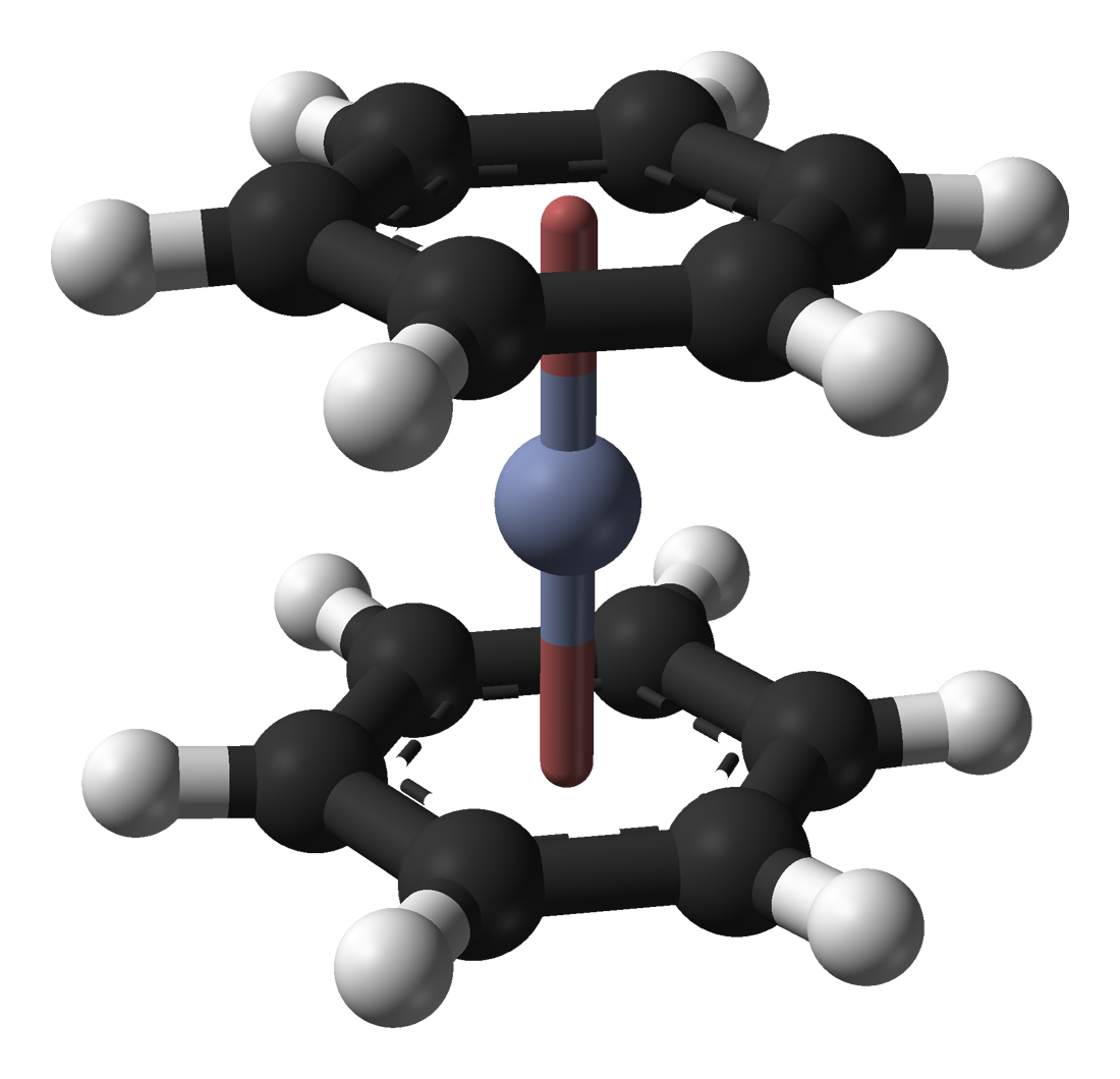 Ball-and-stick model of the bis(benzene)chromium molecule, [(C6H6)2Cr], i.e. C12H12Cr, from the crystal structure. Colour code: Carbon, C: black Hydrogen, H: white Chromium, Cr: grey-blue Crystal structure by X-ray diffraction from J. Phys. Chem. A (2006) 110, 6545–6551. Model constructed in CrystalMaker 8.1. Image generated in Accelrys DS Visualizer.